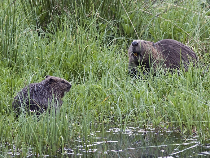 Mother and kit Eurasian beaver on a Tay River tributary